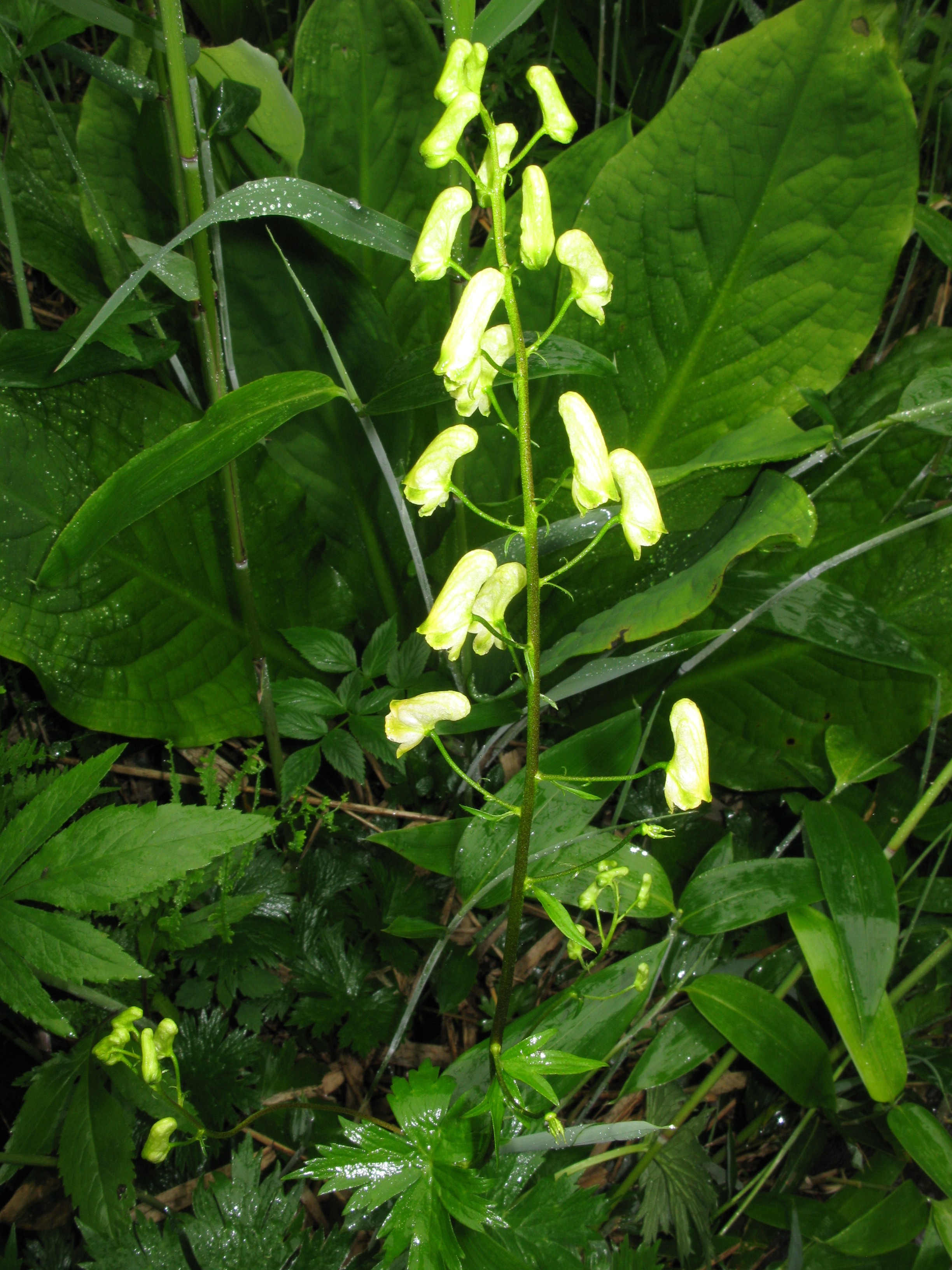 Aconitum umbrosum, Oze, Fukushima pref., Japan